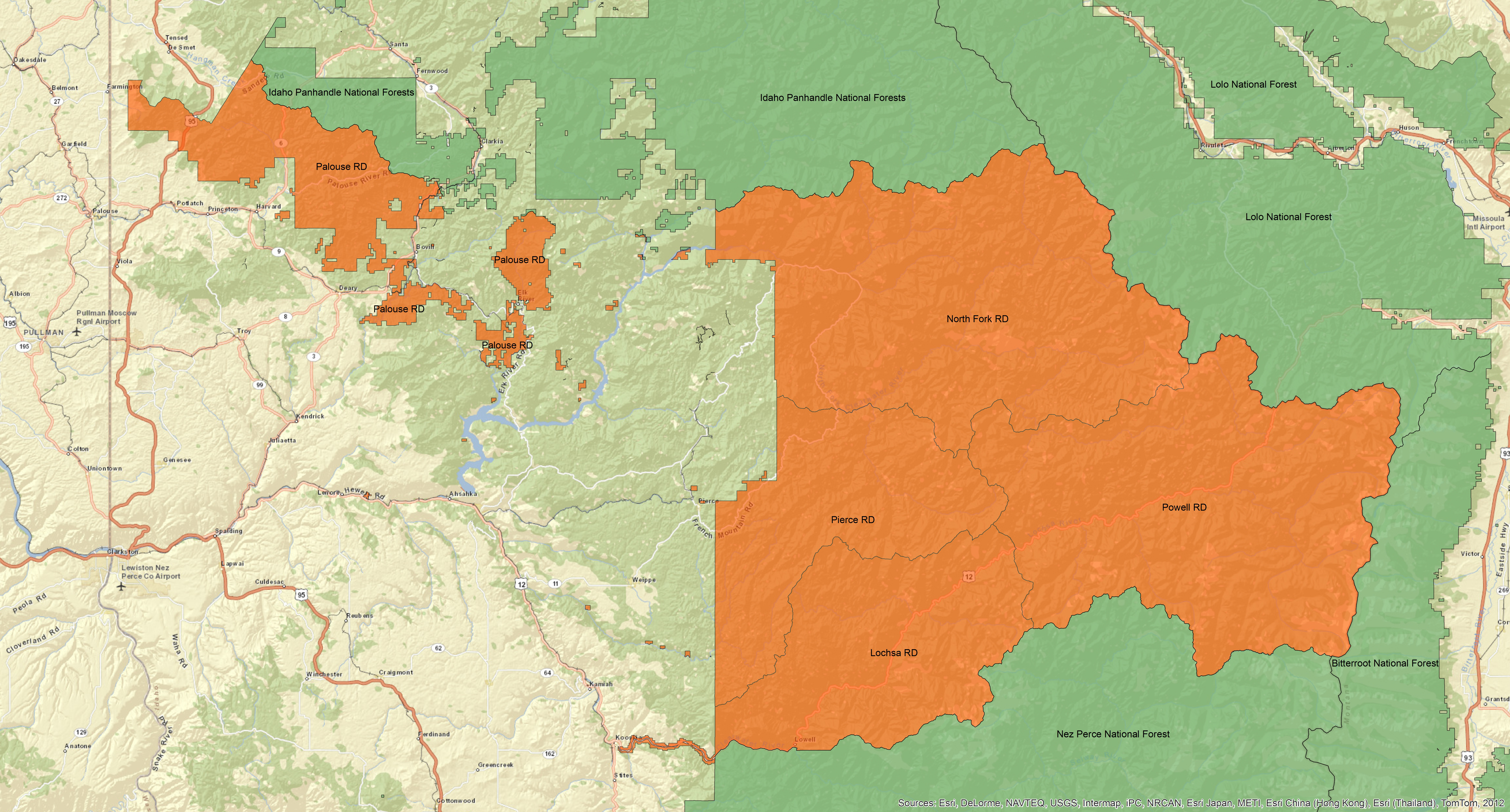 A map of Clearwater National Forest in Idaho. The Lochsa, North Fork, Palouse, and Powell Ranger Districts of the forest are in orange. Surrounding national forests, including Bitterroot, Idaho Panhandle, Lolo, and Nez Perce are in green. This map was made using ARCMAP 10.1, and all data are in the public domain. Forest Service boundary data are from the US Forest Service FSGeodata Clearinghouse